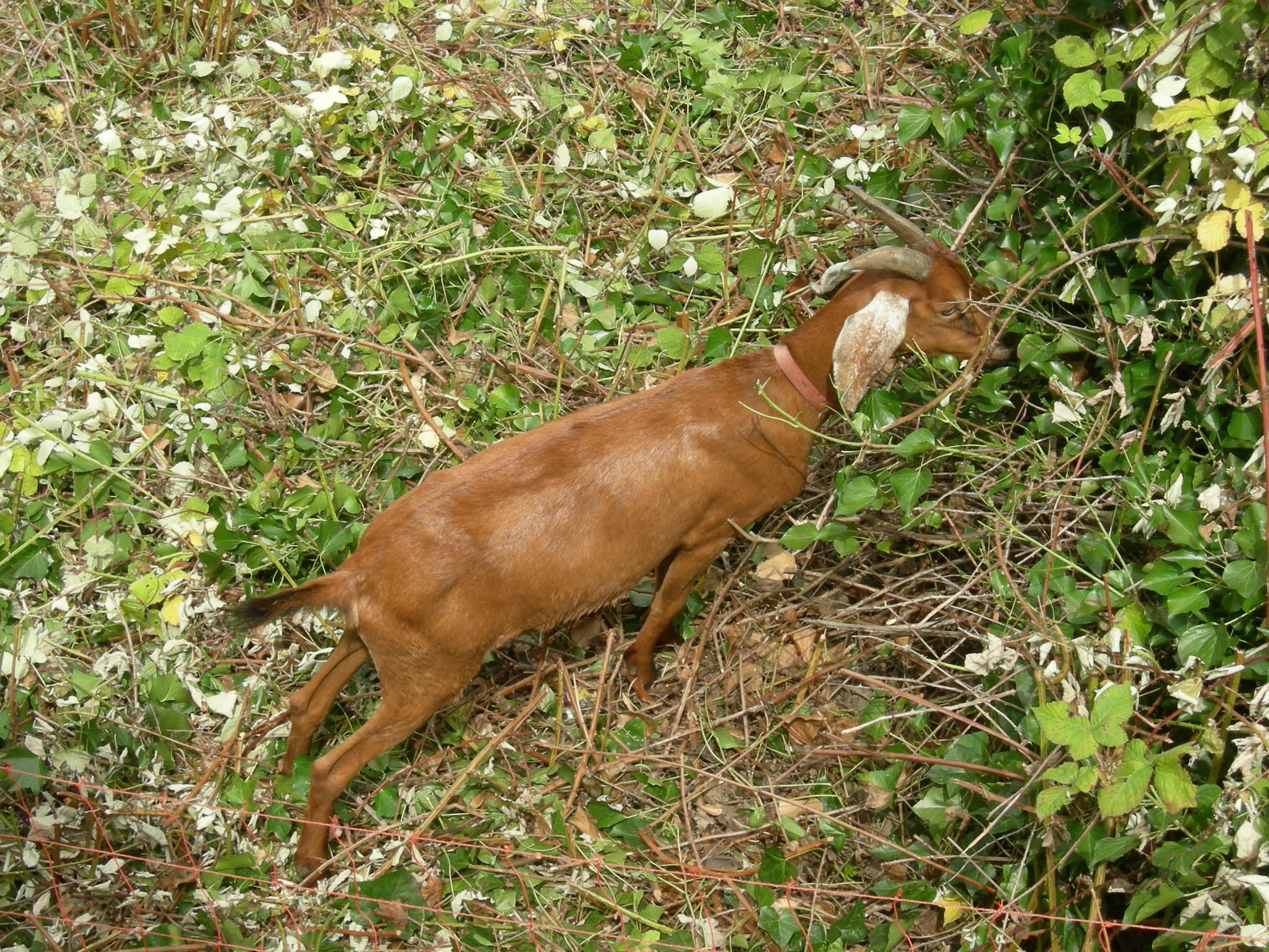 One of the forty or so of Tammy Dunakin's "Rent-A-Ruminant" goats brought in to eat blackberry bushes that had overrun an area of the University of Washington campus, Seattle, Washington.